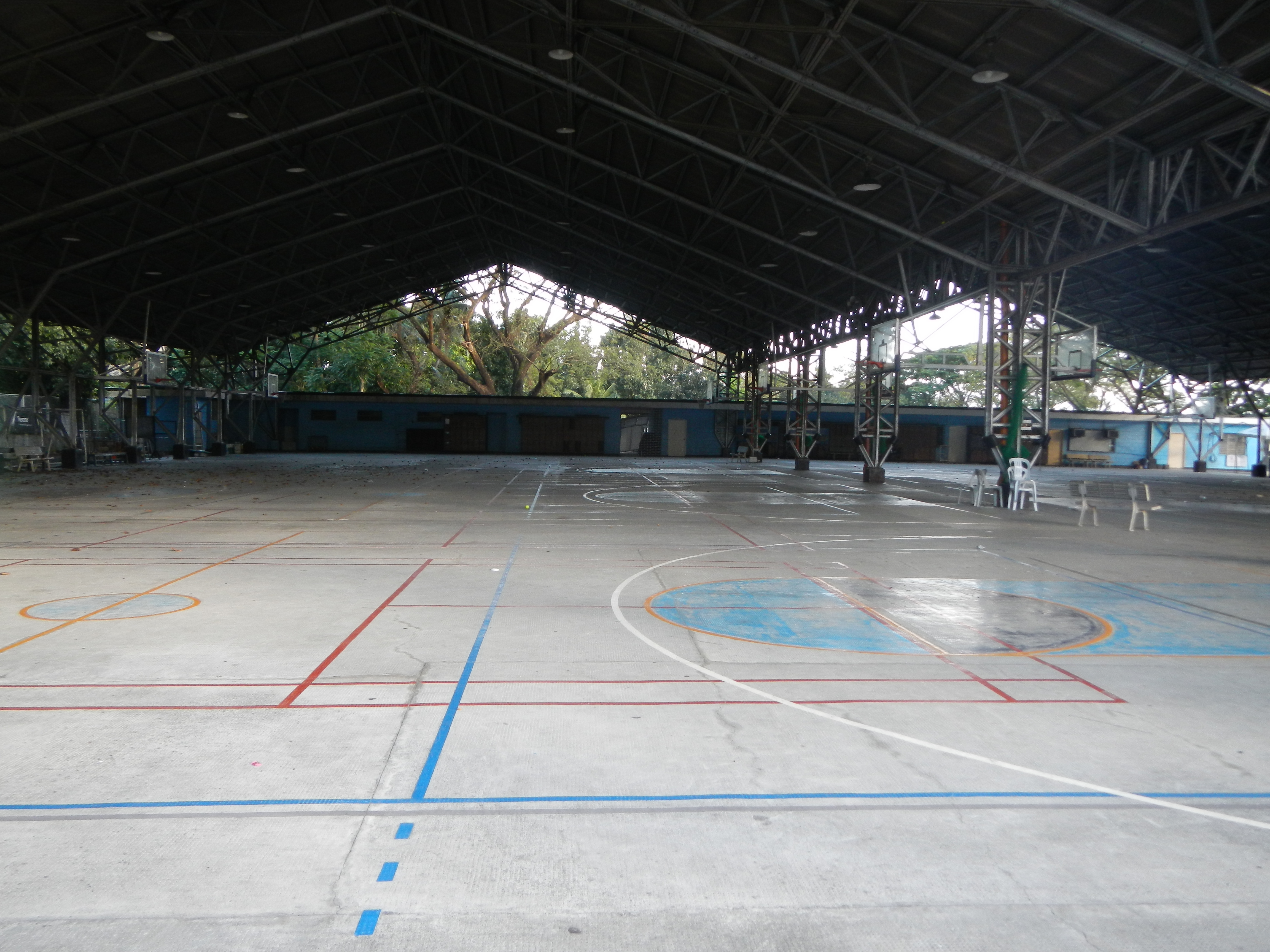 [1]Loyola Schools